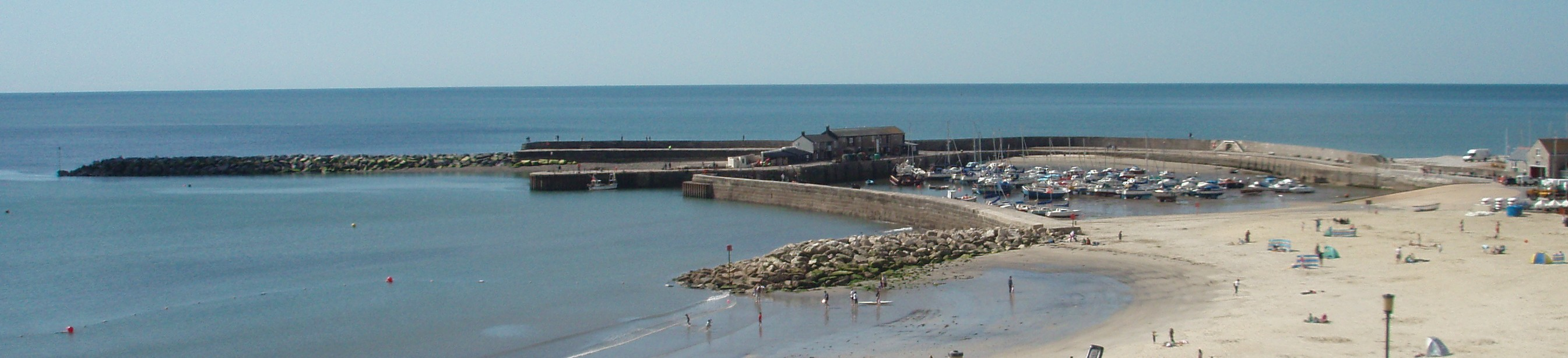 The Cobb in Lyme Regis, May 2007.